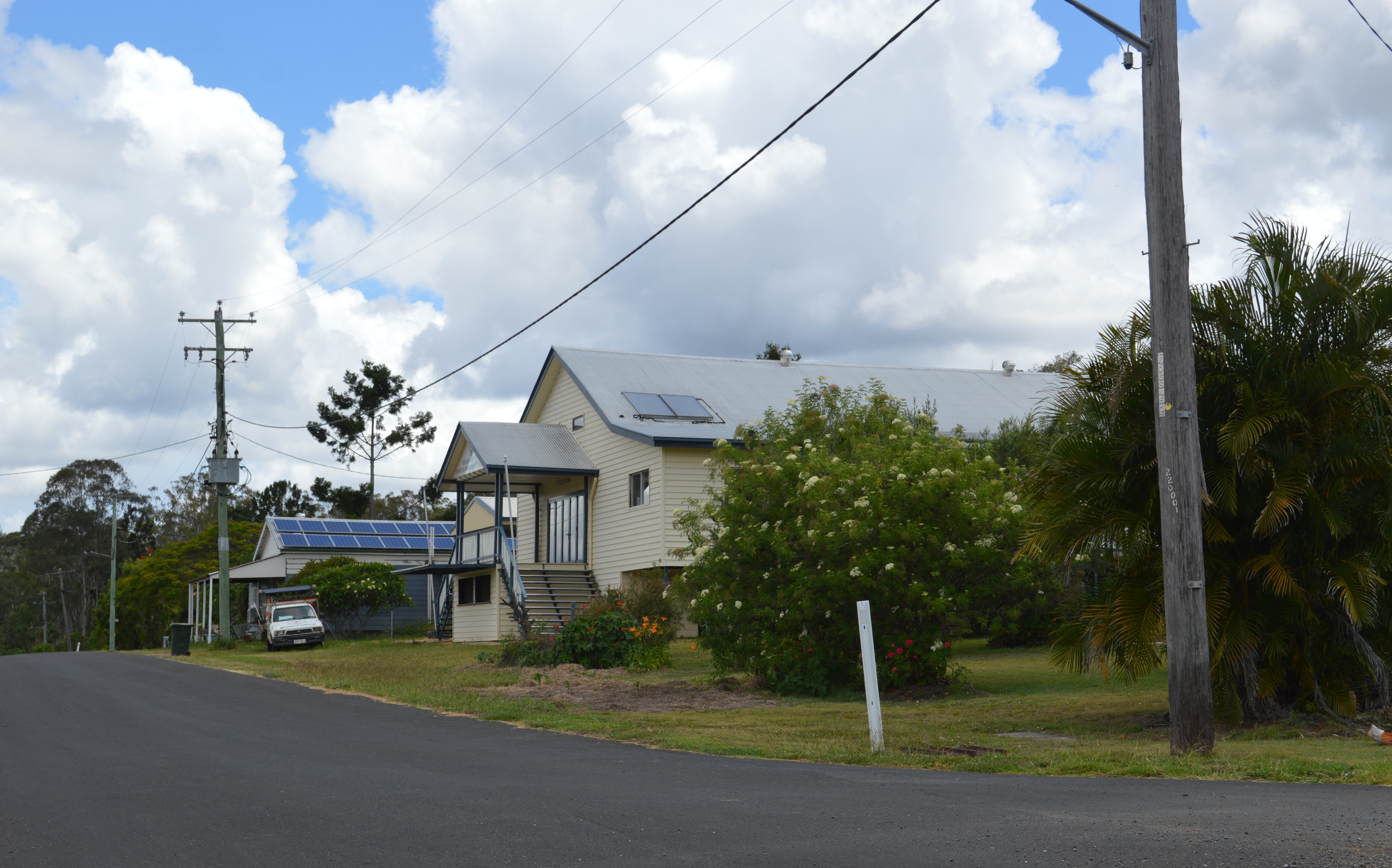 A street in Builyan, Queensland